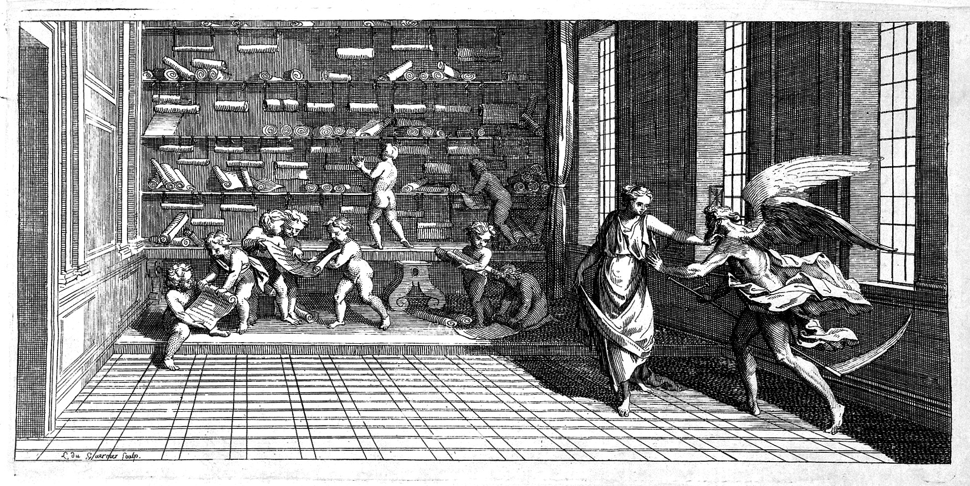 Literature saving the past from destruction by Time, in the form of an old angel with a scythe. Etching by L. du Guernier. Iconographic Collections Keywords: Louis Du Gernier II; Louis Du Gernier II; Louis du Guernier